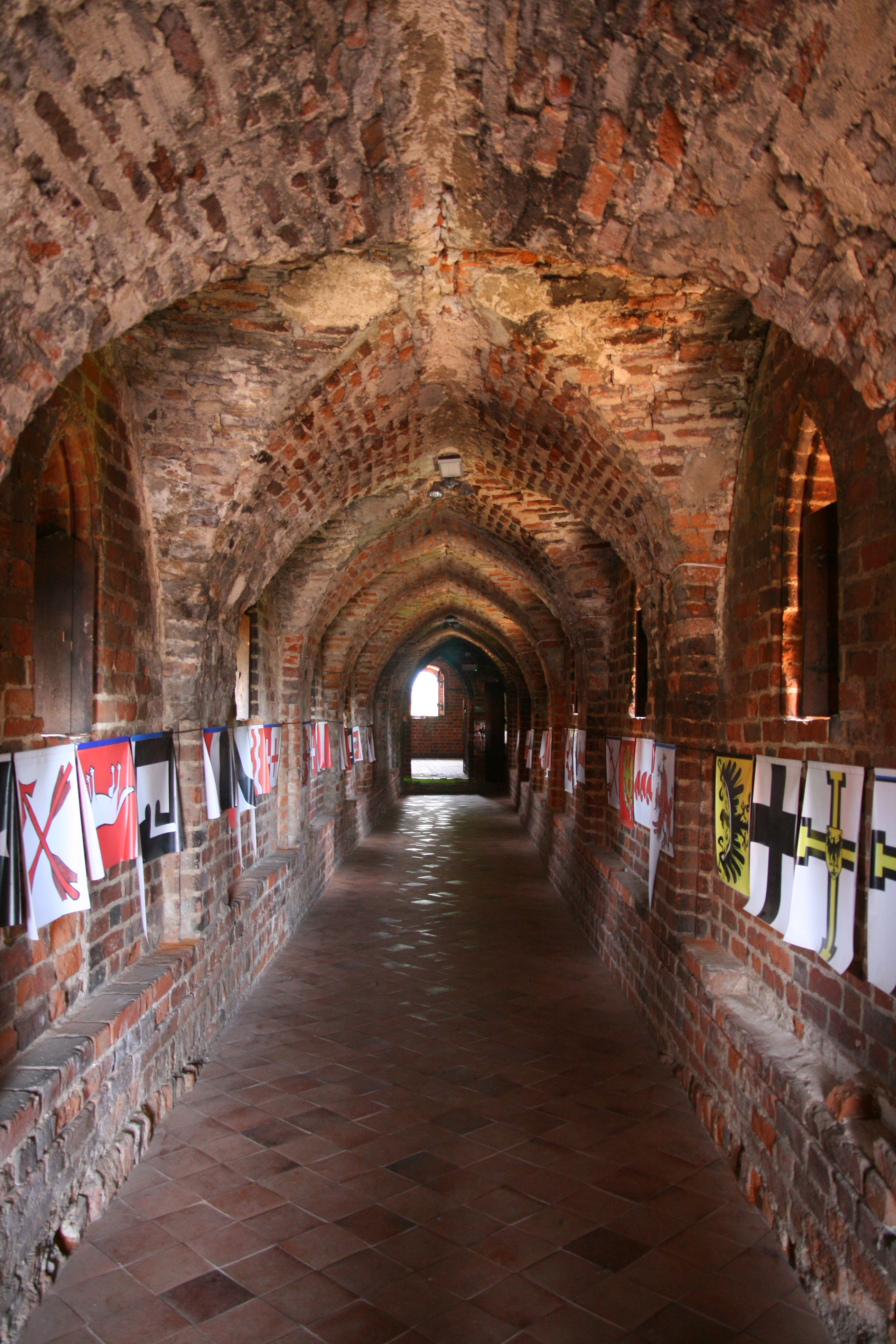 Teutonic Knights Castle in Toruń.